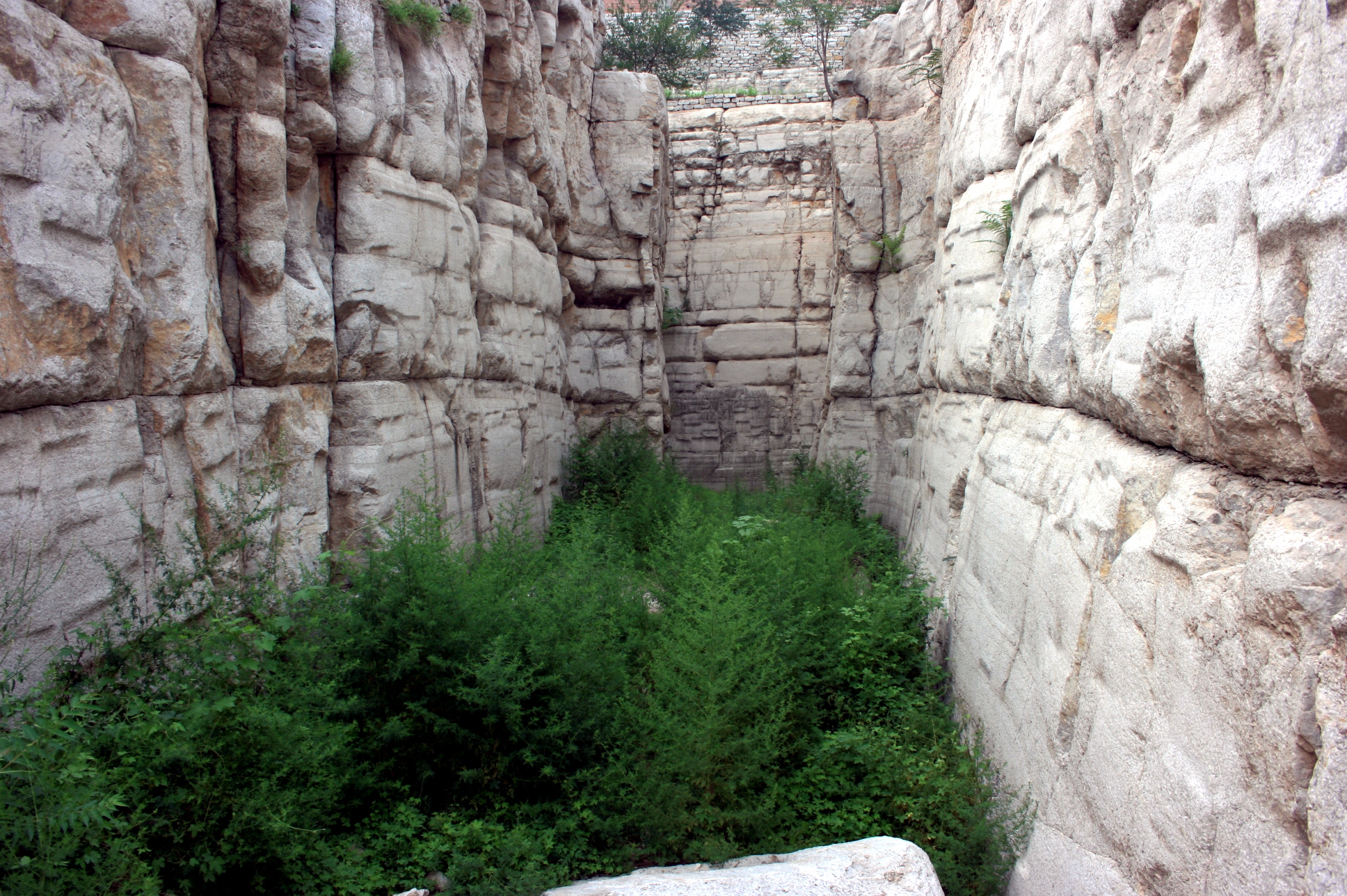 Photograph of the Tomb of Liu Kuan, the last King of Jibei on Shuangru Mountain, Changqing District, Shandong Province, China.